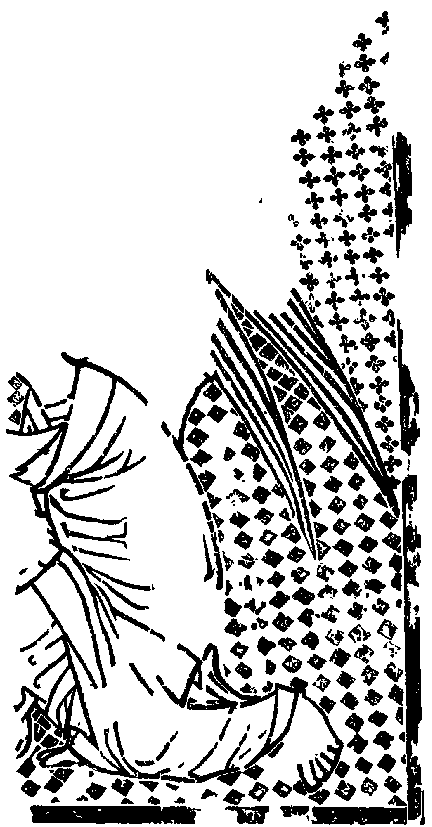 The verso of the woodblock fragment the bois Protat. The fragment shows a kneeling angel from a presumed Annunciation scene.